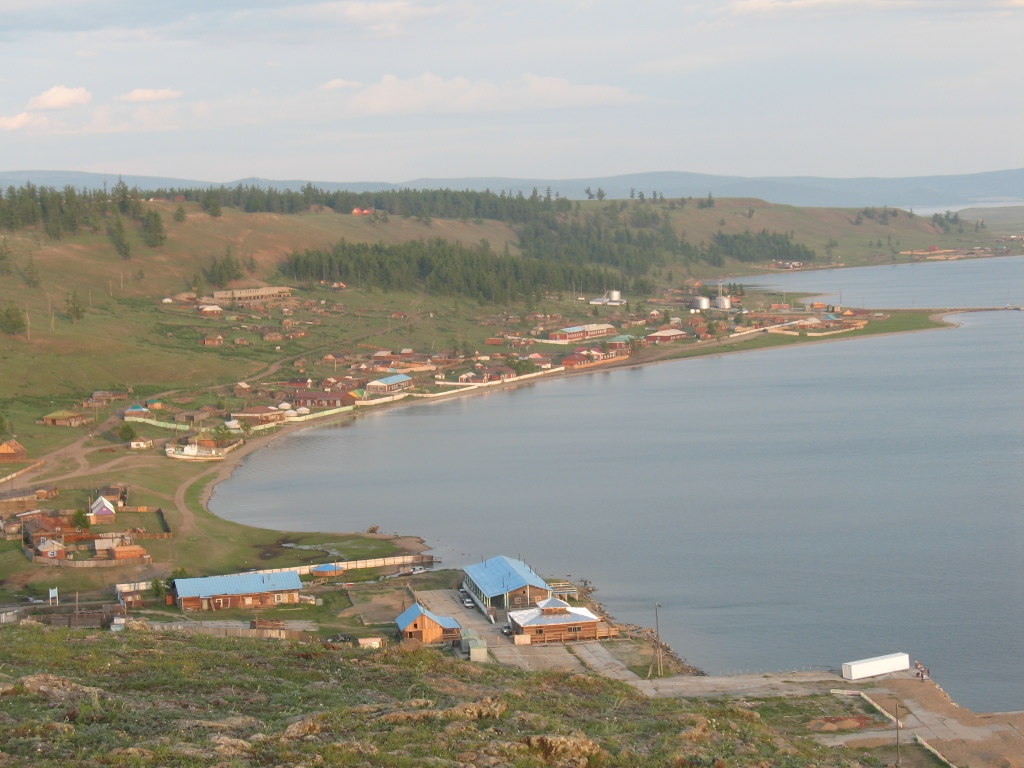 Hubsugul lake 1